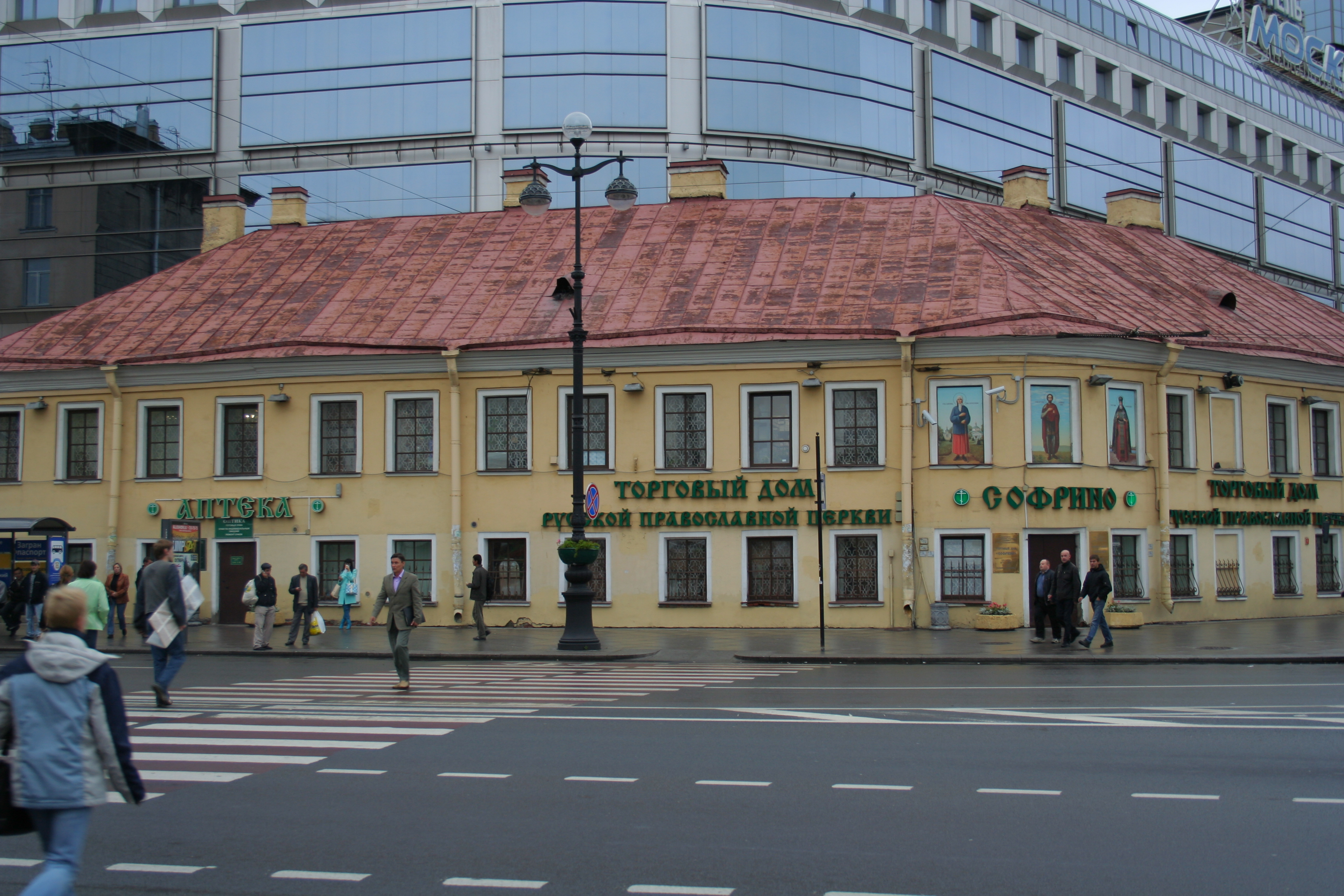 The Nevsky Prospekt in Saint Petersburg. House number 190.